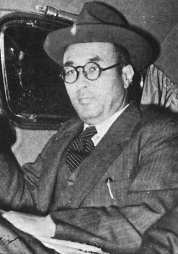 Chief Cabinet Secretary Naoki Hoshino (1892–1978) arriving at the official residence of War Minister after Hideki Tōjō was invited to form a government.